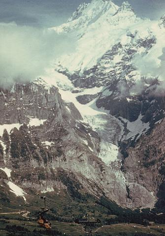 en=Upper Grindelwald Glacier in Switzerland. (according caption on use of the photo on hebrew wikipedia) Photo taken by Adrian Pingstone in 1963